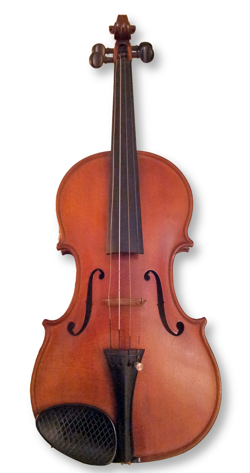 Violin made by Józef Rymwid-Mickiewicz